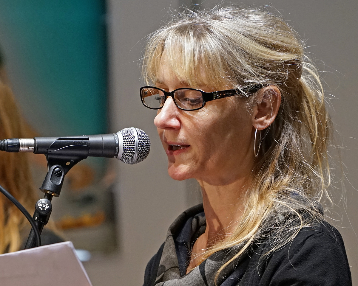 Anette Støvelbæk - Danish actress at the Copenhagen Book Fair "BogForum 2015", Copenhagen, Denmark